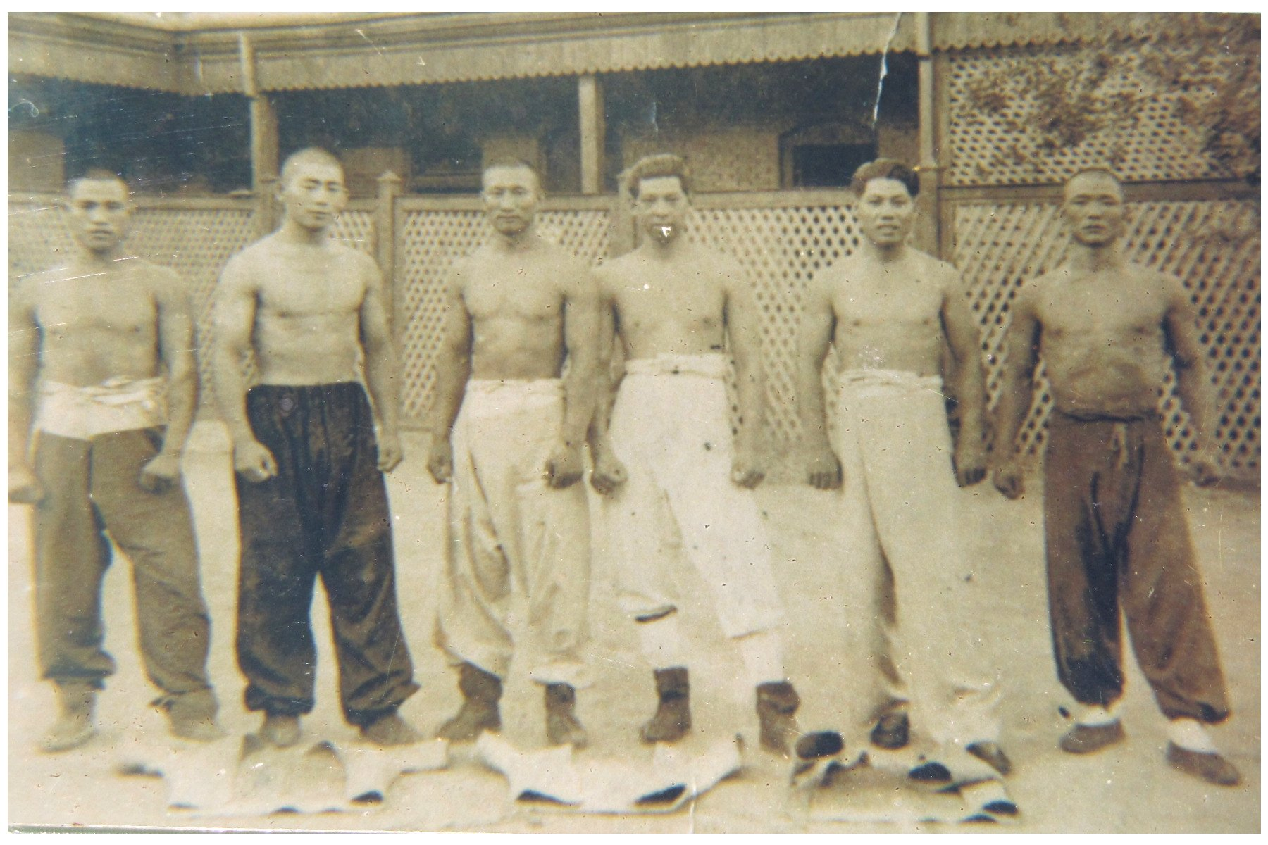 six masters of chinese type wrestling Tianjin 1930